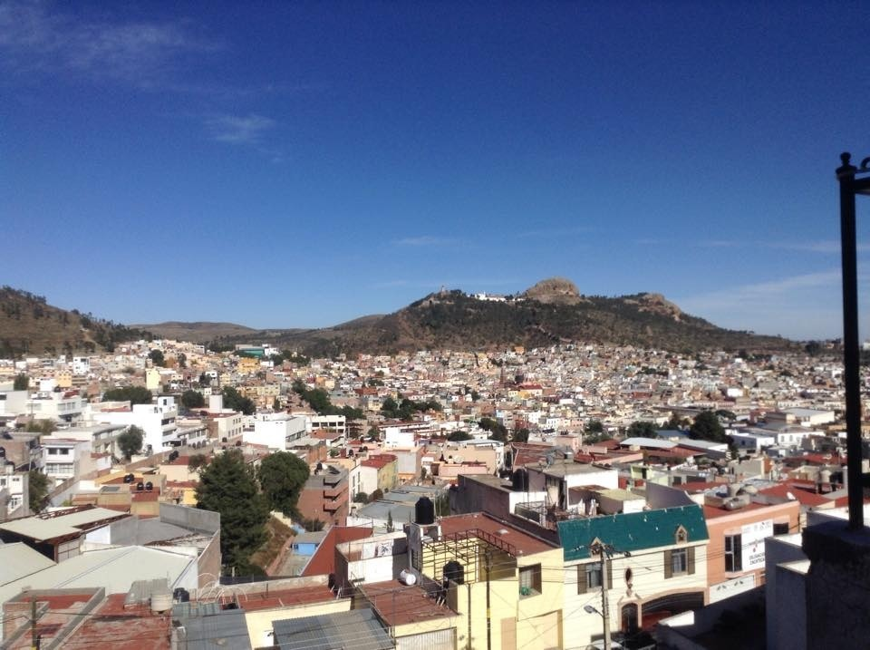 Zacatecas bufa clear sky